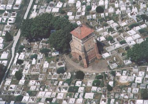 Fegyvernek, Hungary, aerialphotography